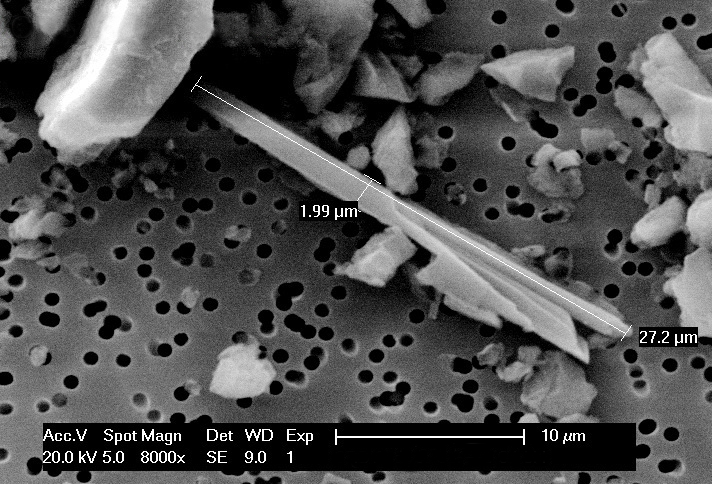 Rasterelektronenmikroskopische Aufnahme von Asbestfasern (Aktinolith) aus einem Asphaltbohrkern auf einem Kernporenfilter